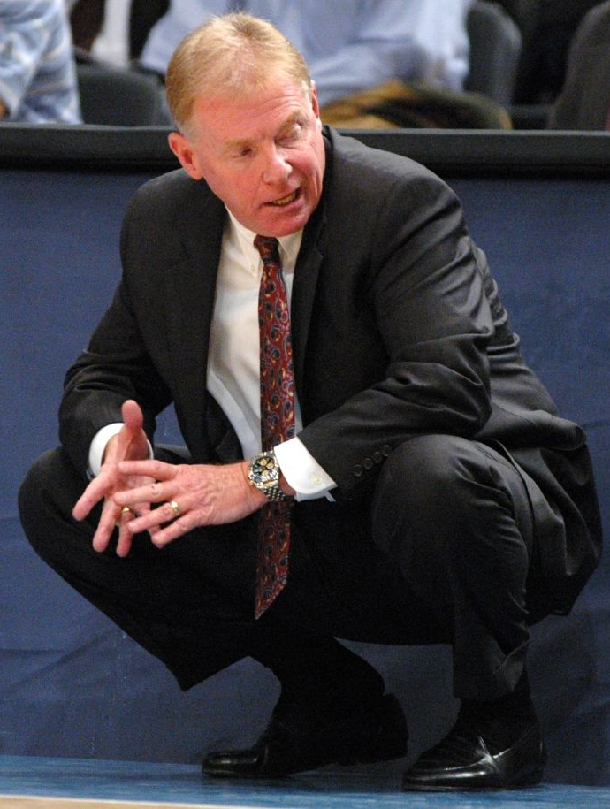 Cropped from File:Skip Prosser.jpg. Skip Prosser (en), coach of the Wake Forest Demon Deacons college basketball team until his passing July 2007. (This photo was taken in New York during a preseason NIT game against Florida.)